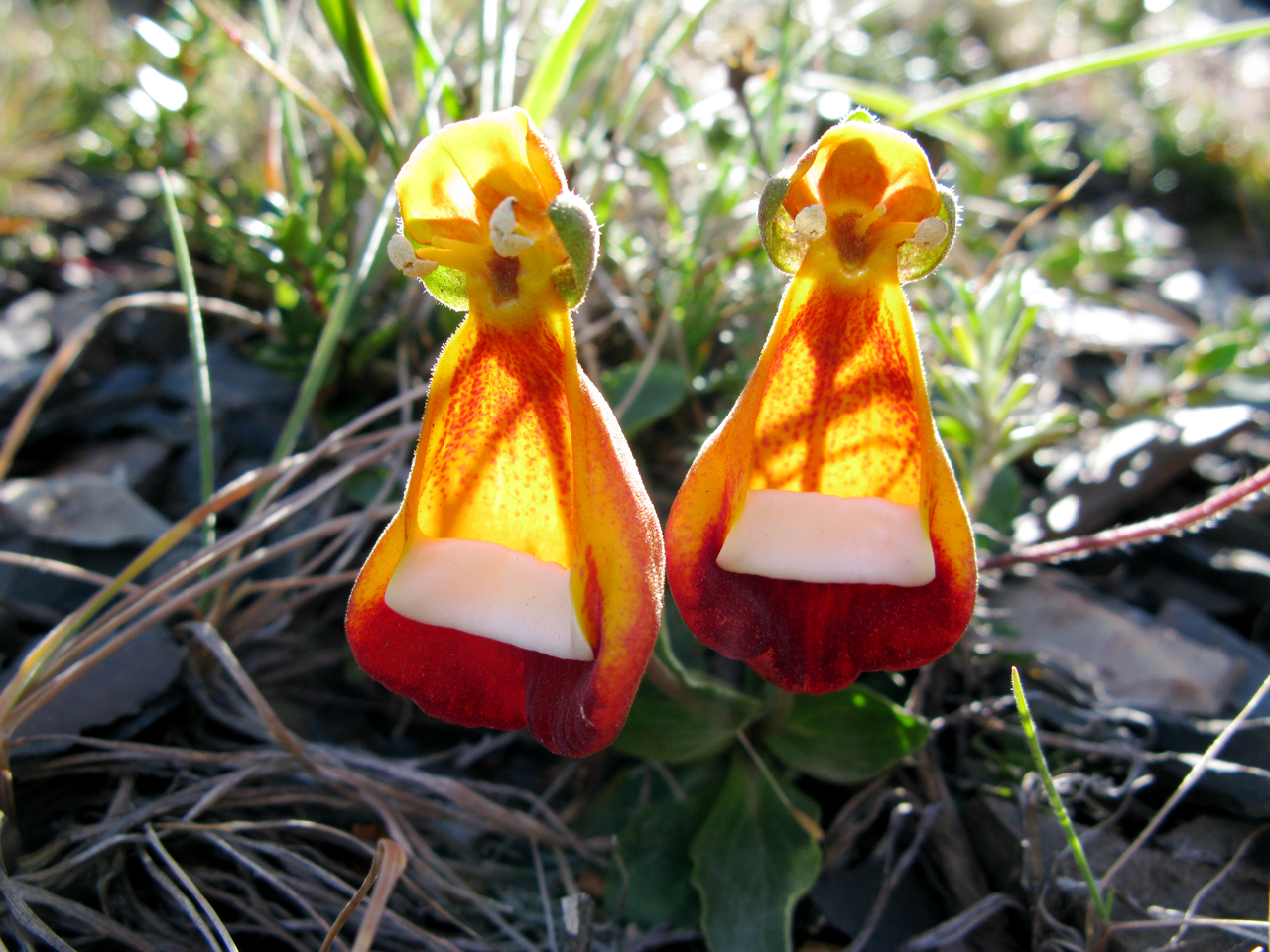 Calceolaria uniflora - (Chile - Torres del Paine)